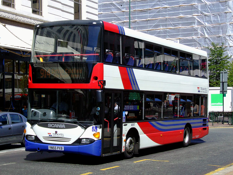 Travel West Midlands' 4697 (YN55 PXB), a double-deck Scania OmniCity on route 914.